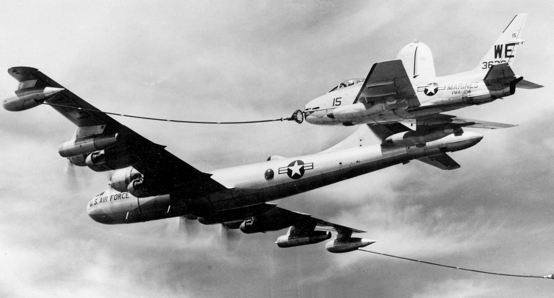 A U.S. Marine Corps North American FJ-4B Fury aircraft (BuNo 143636) of Marine Attack Squadron VMA-214 Black Sheep pulls up to be refueled by a U.S. Air Force Boeing KB-50J Superfortress.